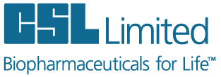 Logo of CSL Limited